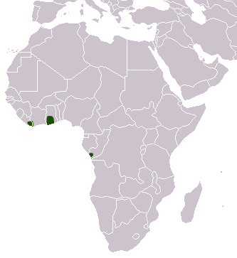 King Genet (Genetta poensis) range